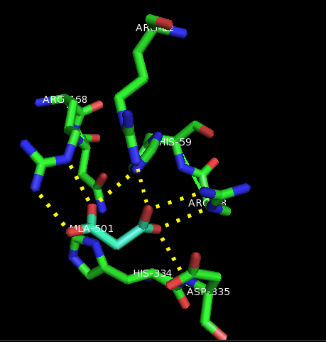 Active site showing residues that have polar interactions with the substrate